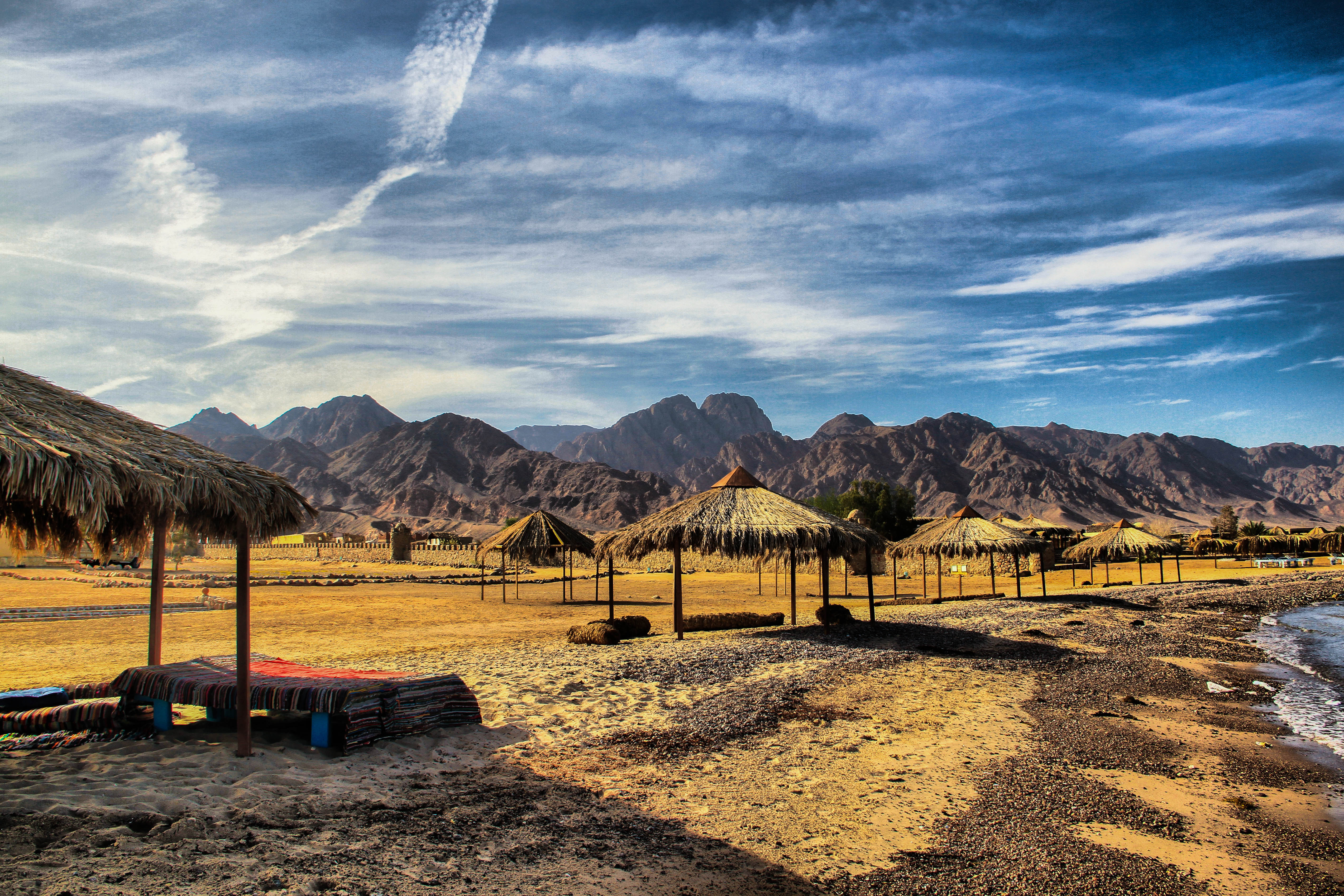 Nuweiba Egyptian port city, located on the opposite bank of the Jordanian port of Aqaba, and connected by a line of trans-Arab Bridge Maritime and therefore passes by pilgrims in the Hajj season.